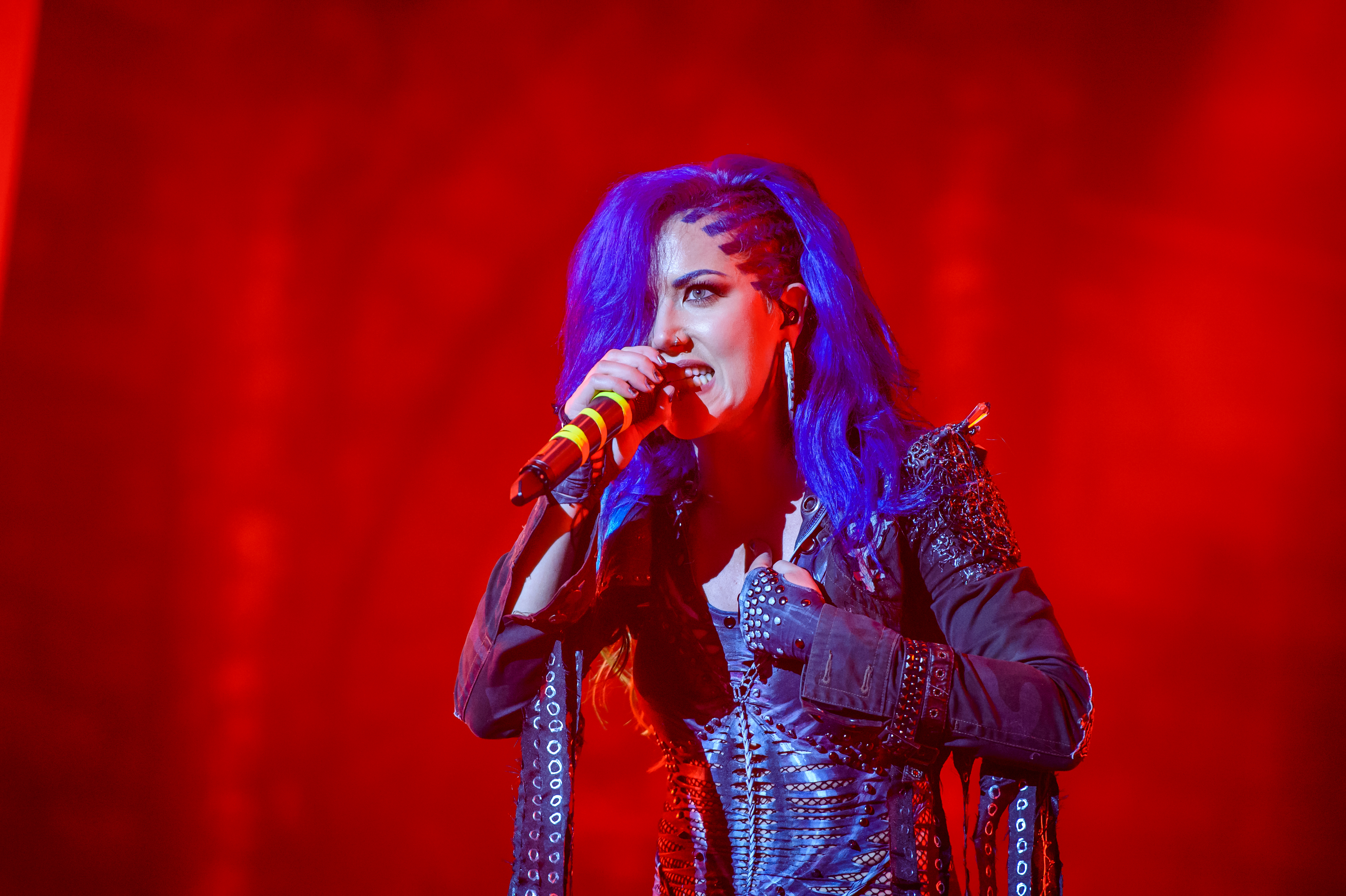 Arch Enemy; Wacken Open Air 2016